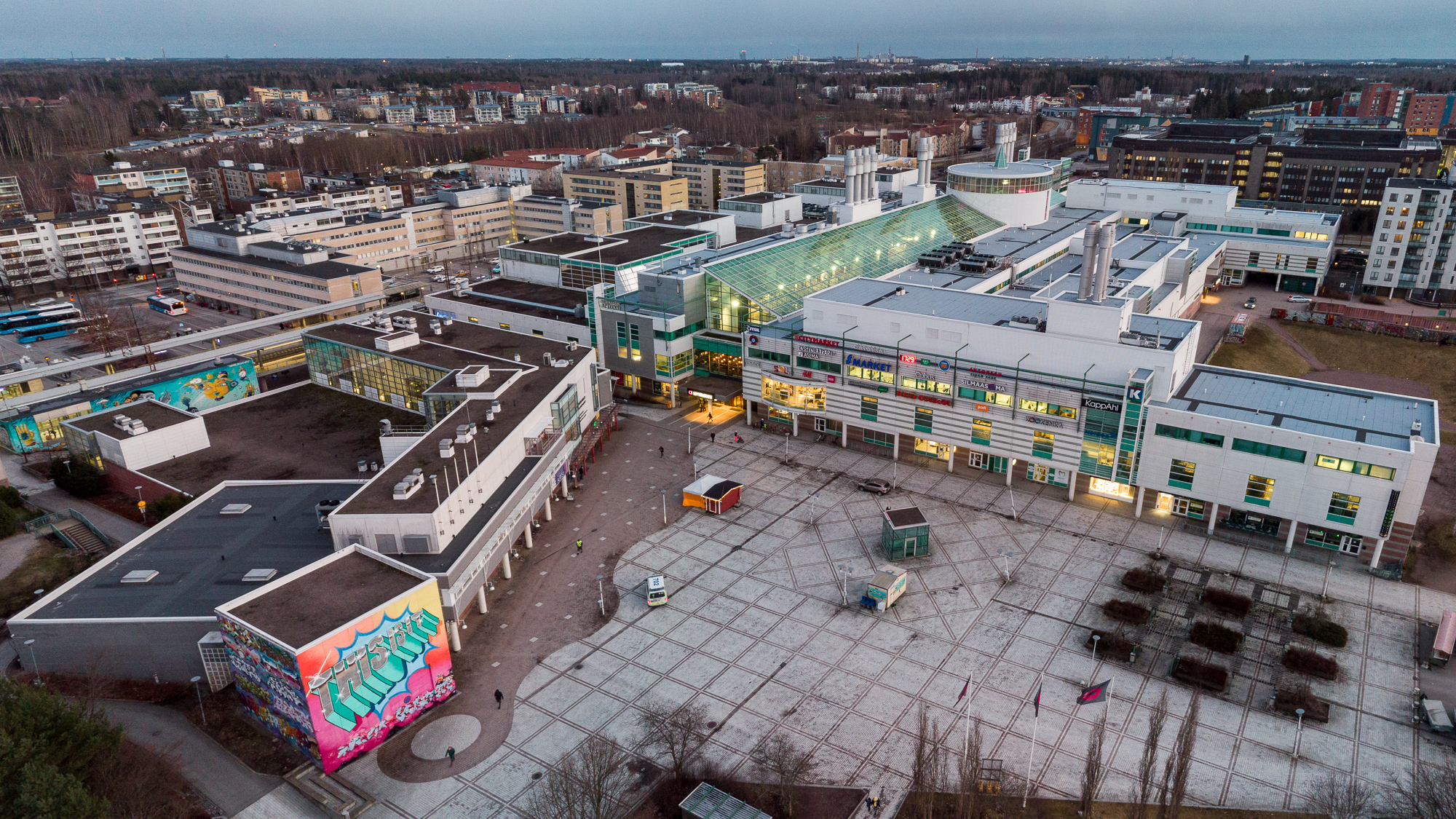 Myyrinmäkitalo community centre, library, and art museum, next to Myyrmanni shopping centre in Myyrmäki, Vantaa, Finland.